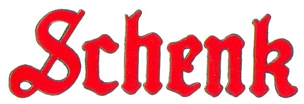 Schenk figure